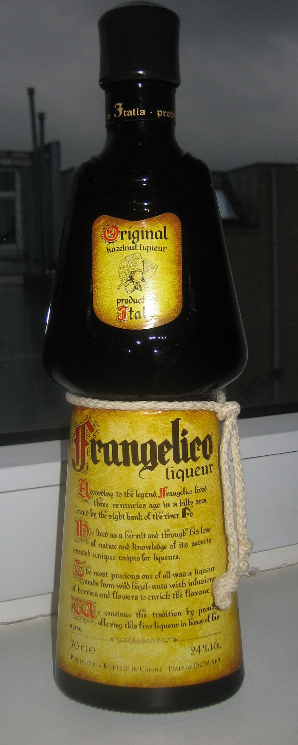 Bottle of Frangelico liqueur produced in Italy.